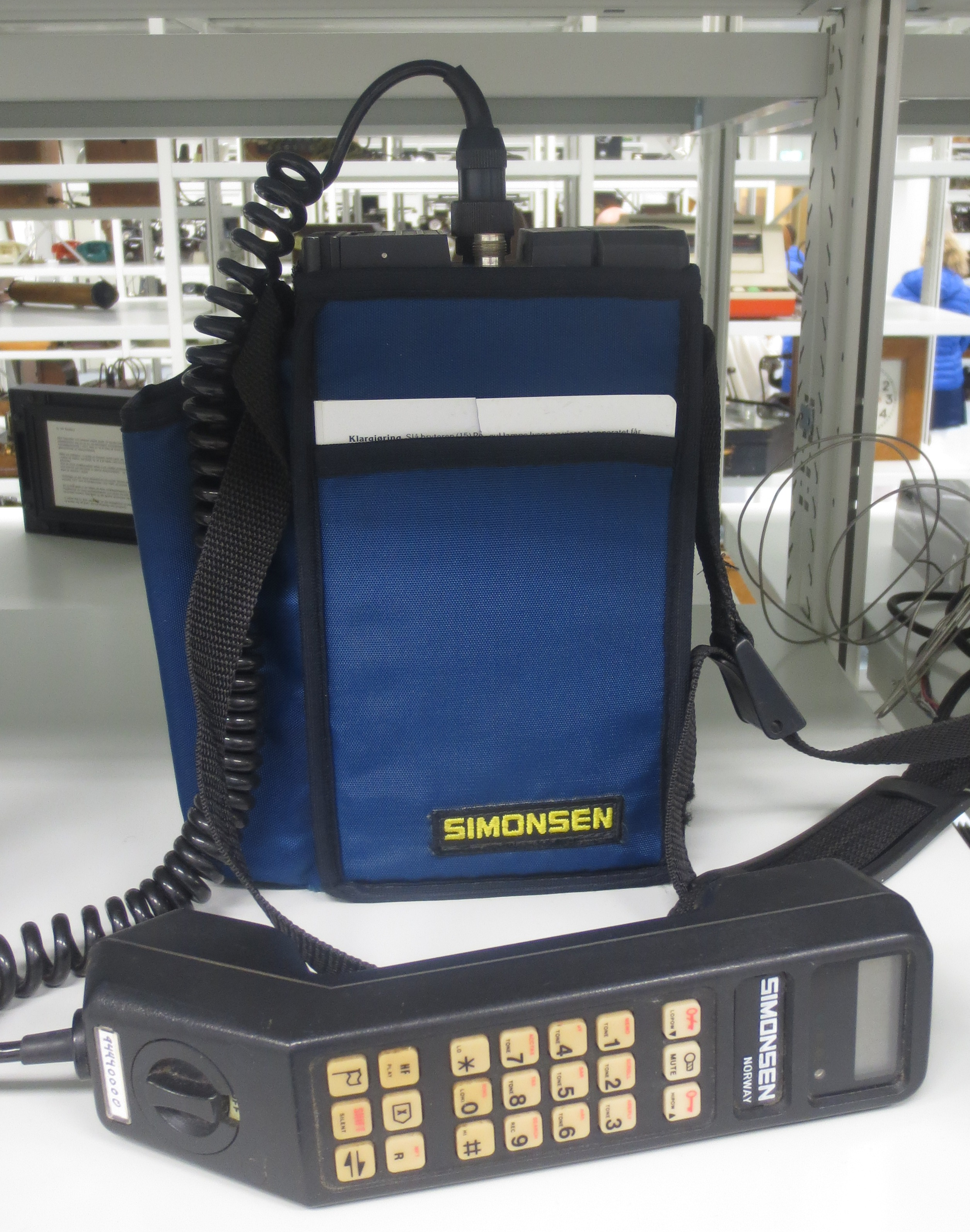 Simonsen Radiofabrikk (Simrad) of Norway was a pioneer in producing mobile phones for the Nordic NMT standard, in the early 1980s. This mobile phone has a carry bag and a wired microphone with integrated keyboard.